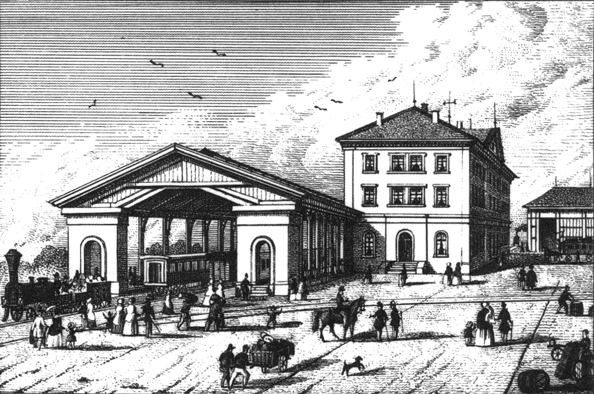 Old train station in Heilbronn at about 1850.